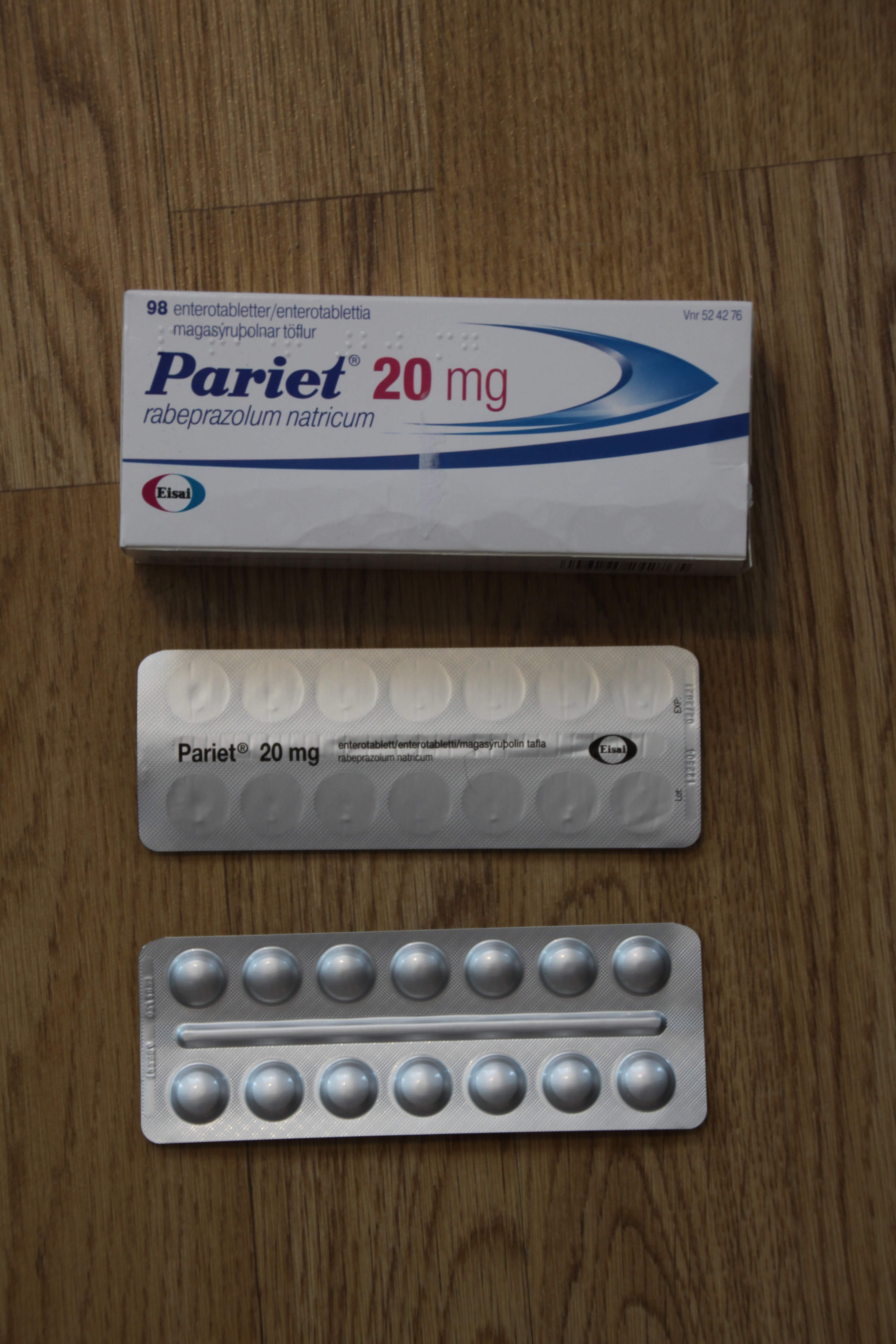 Pariet 20mg -sodiumrabepratsolablets.